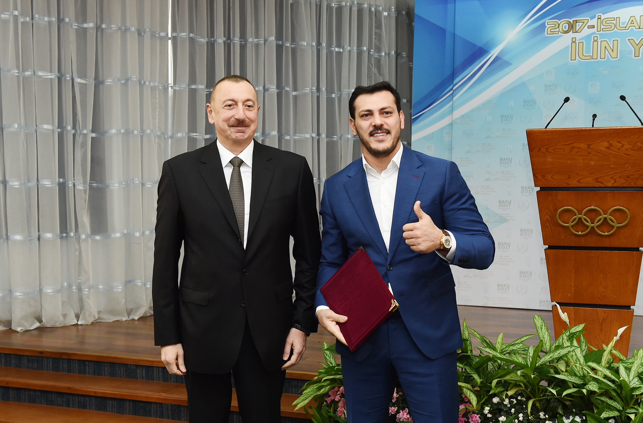 Ilham Aliyev attended ceremony dedicated to sport results of 2017